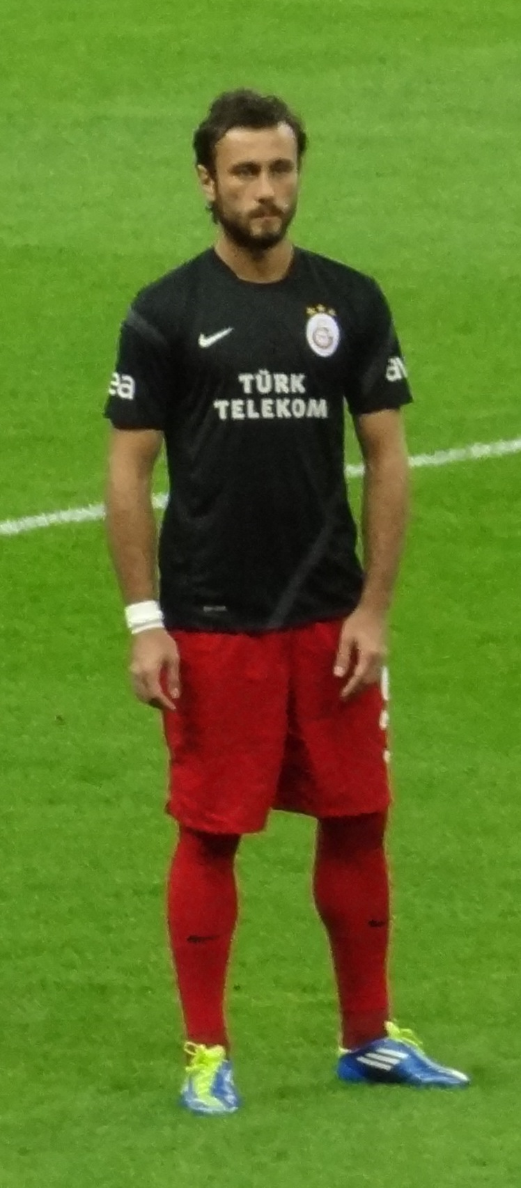 Çağlar birinci 26.09 eskişehir